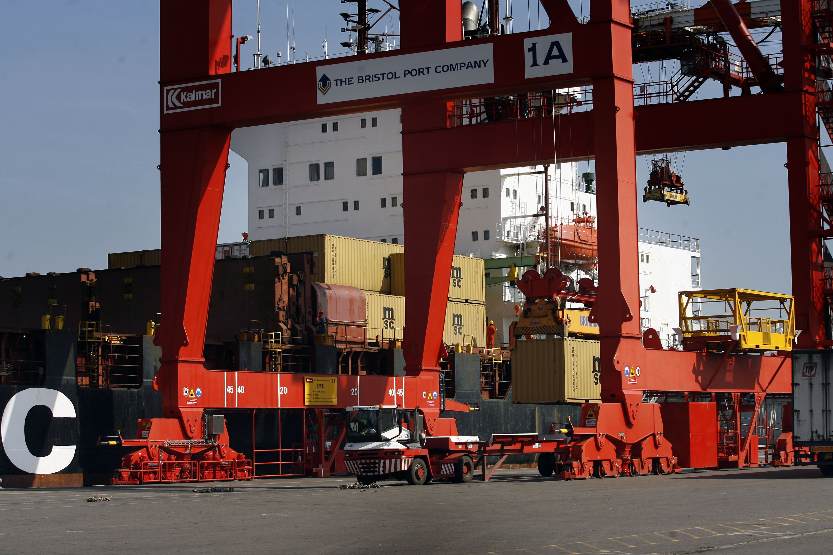 View of a container ship unloading at the Royal Portbury Dock, Bristol, UK